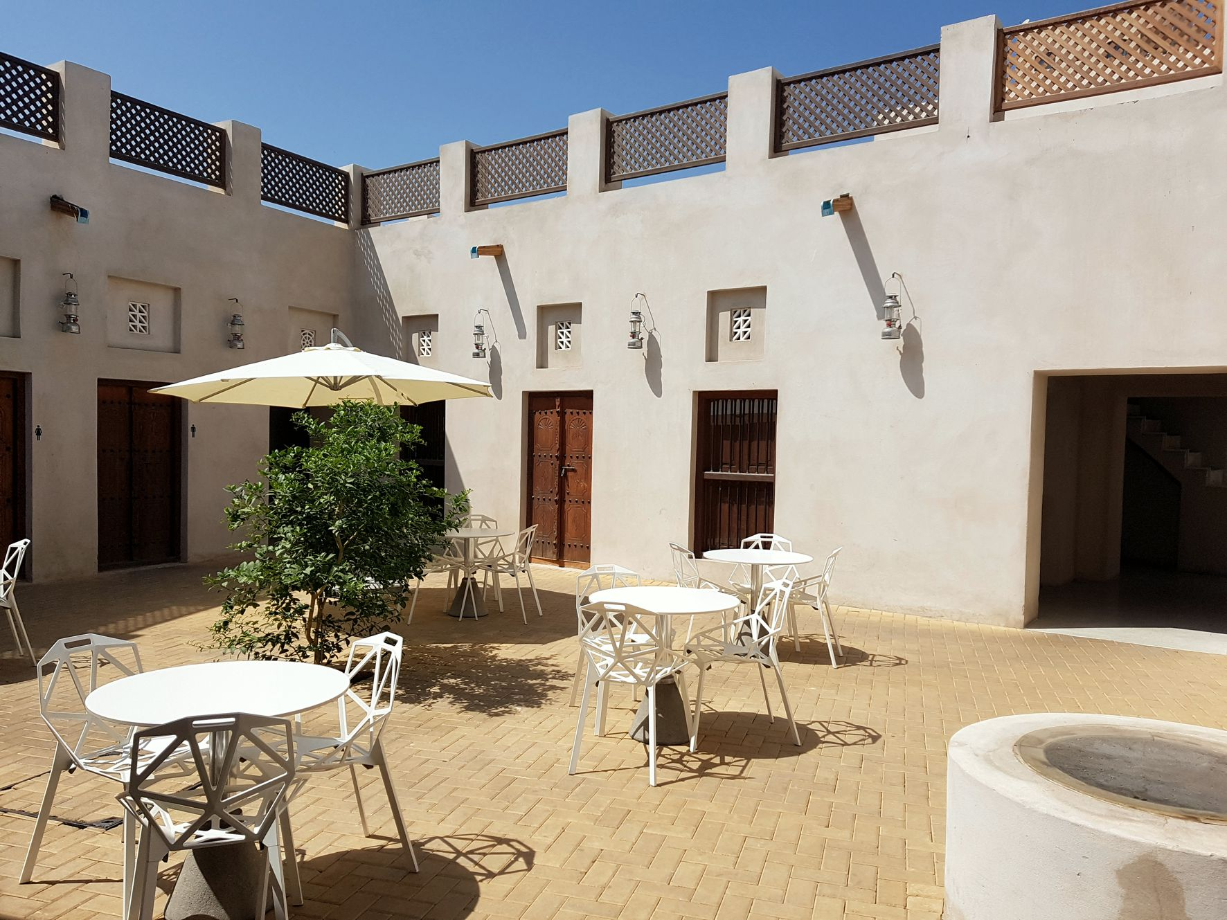 Courtyard of traditional adobe and coral house at Heart of Sharjah (Fen Cafe)